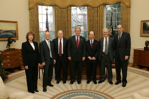 President George W. Bush meets with the 2004 Nobel Laureates in the Oval Office. Pictured with President Bush, from left, are Dr. Linda Buck, physiology and medicine; Finn Kydland, economics; Edward Prescott, economics; Frank Wilczek, physics; David Gross, physics; and Richard Axel, physiology and medicine.